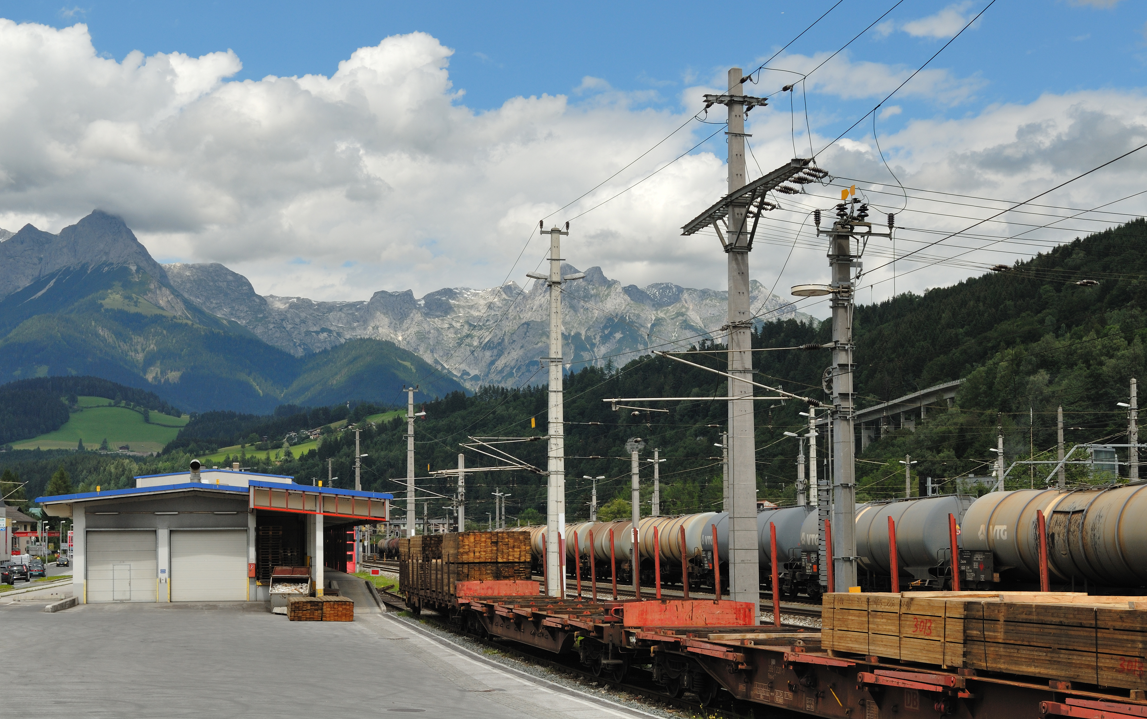 South view of Bischofshofen station.